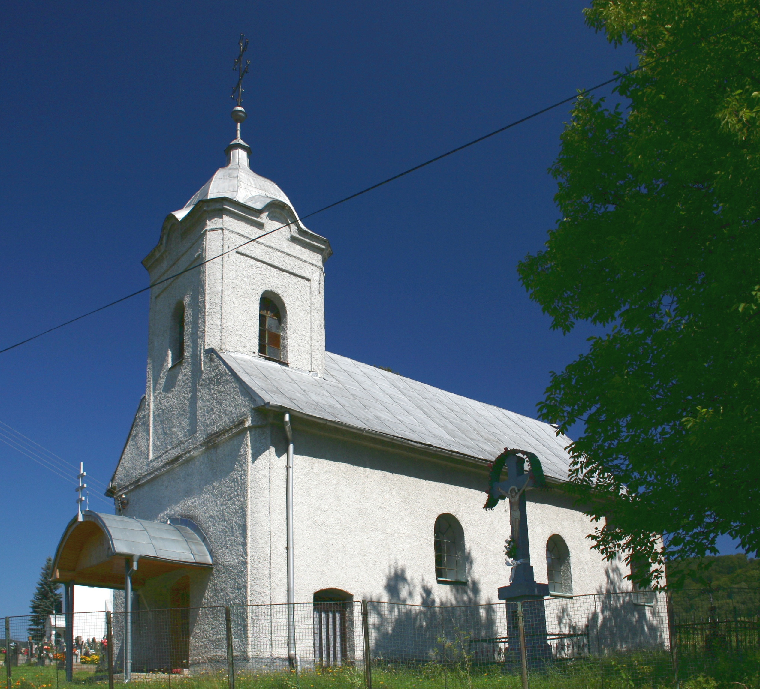 cerkiew in Rokytovce, village in Slovakia